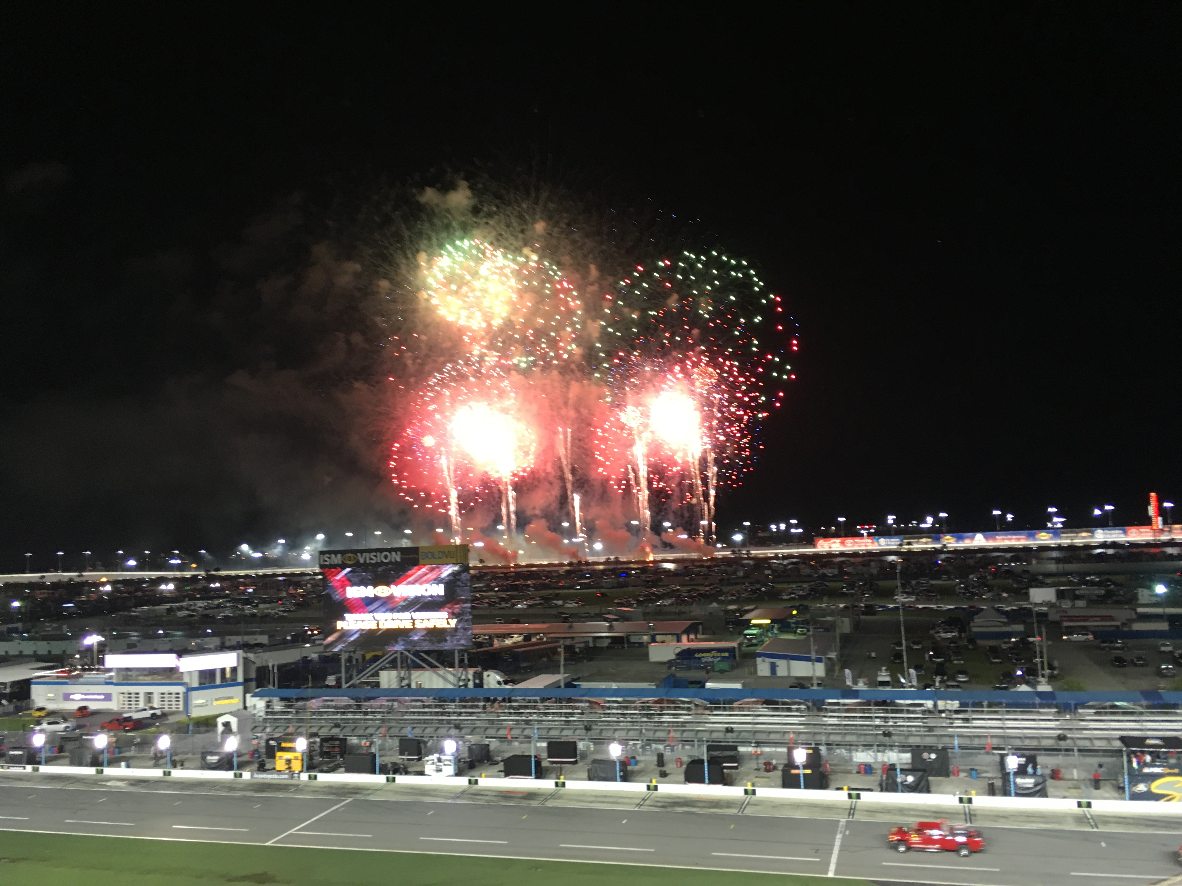 The fireworks show after the 2018 Coke Zero Sugar 400 at Daytona International Speedway viewed from the frontstretch